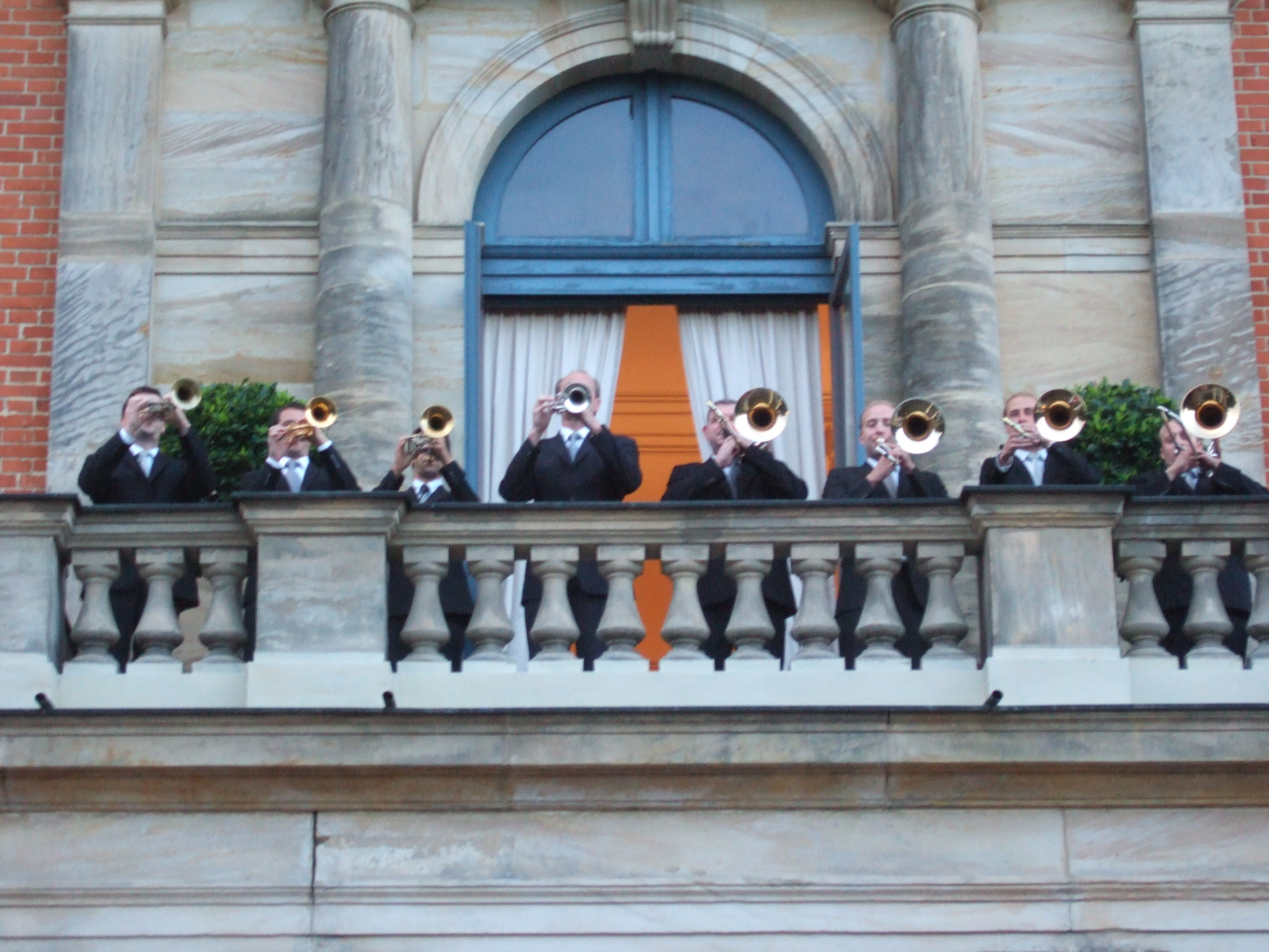 Interval Fanfare at the Bayreuther Festspiele (2011)